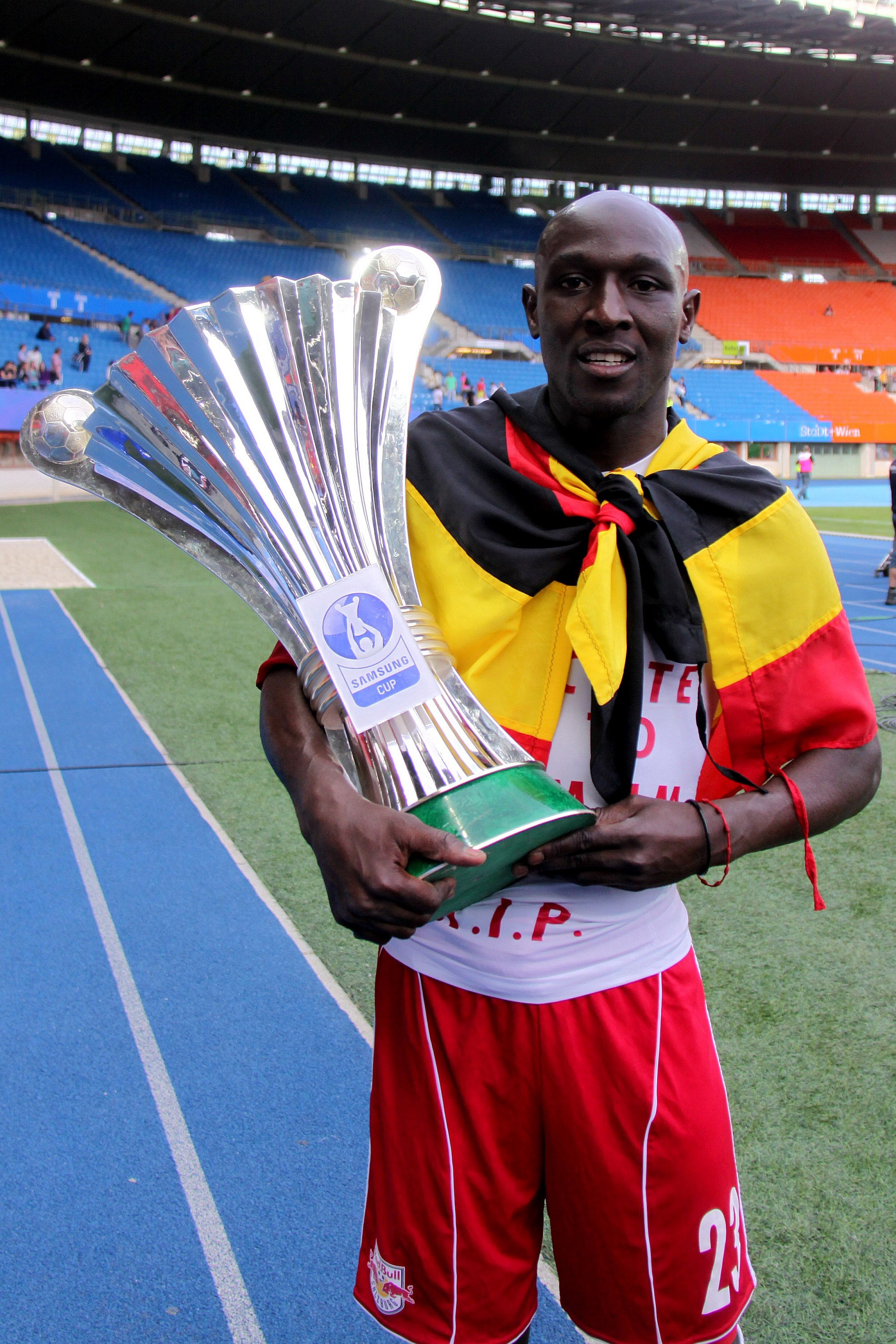 Final of the 2011–12 Austrian Cup FC Red Bull Salzburg vs. SV Ried at 2012-05-20 in the Ernst-Happel-Stadion, Vienna 3:0 (2:0). The photo shows the captain of FC Red Bull Salzburg Ibrahim Sekagya with the cup and the flag of Uganda. Object location48° 12′ 25.8″ N, 16° 25′ 15.42″ E